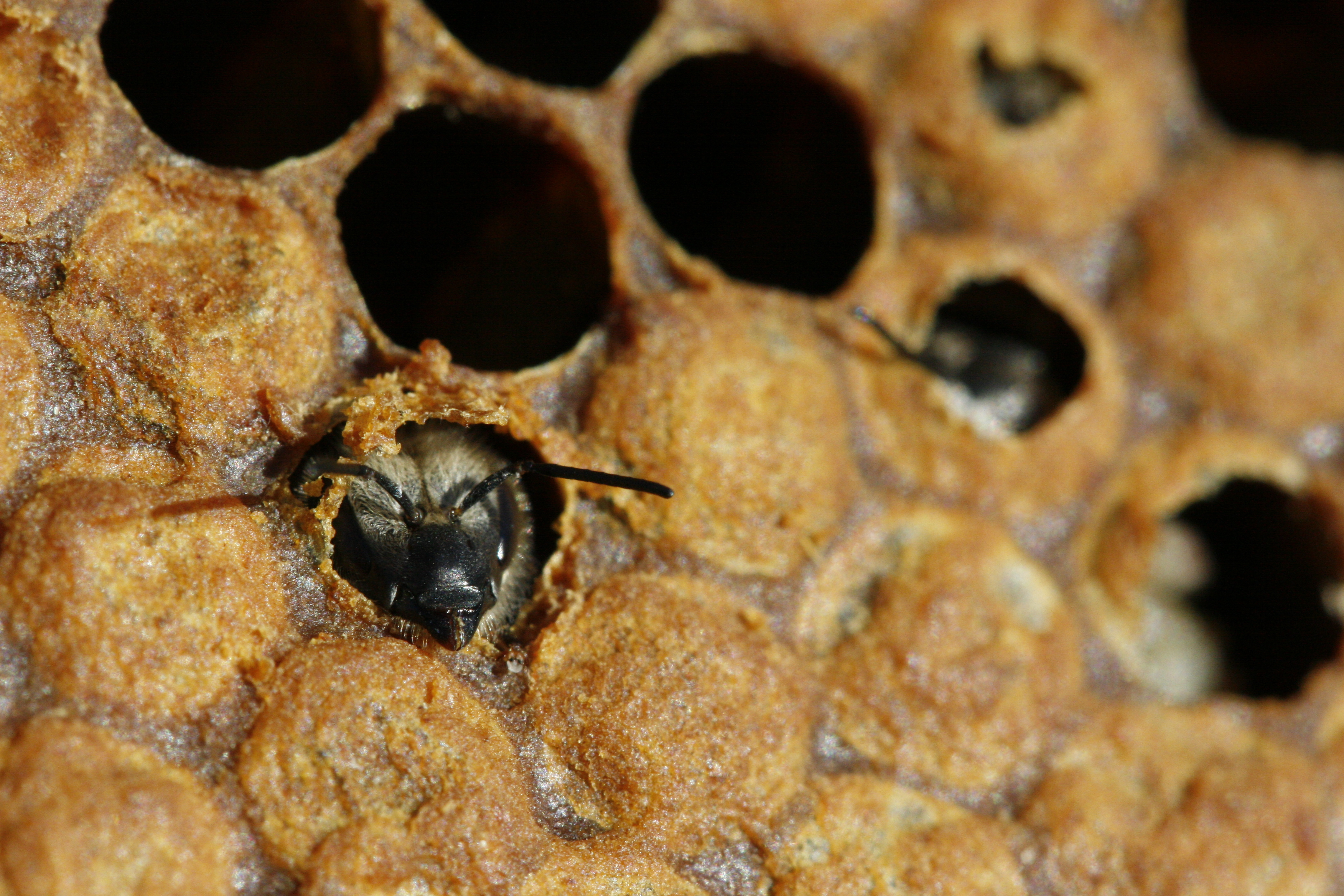 (fr)Naissance d'une abeille noire (Apis mellifera mellifera) (en)Birth of black bee (Apis mellifera mellifera)